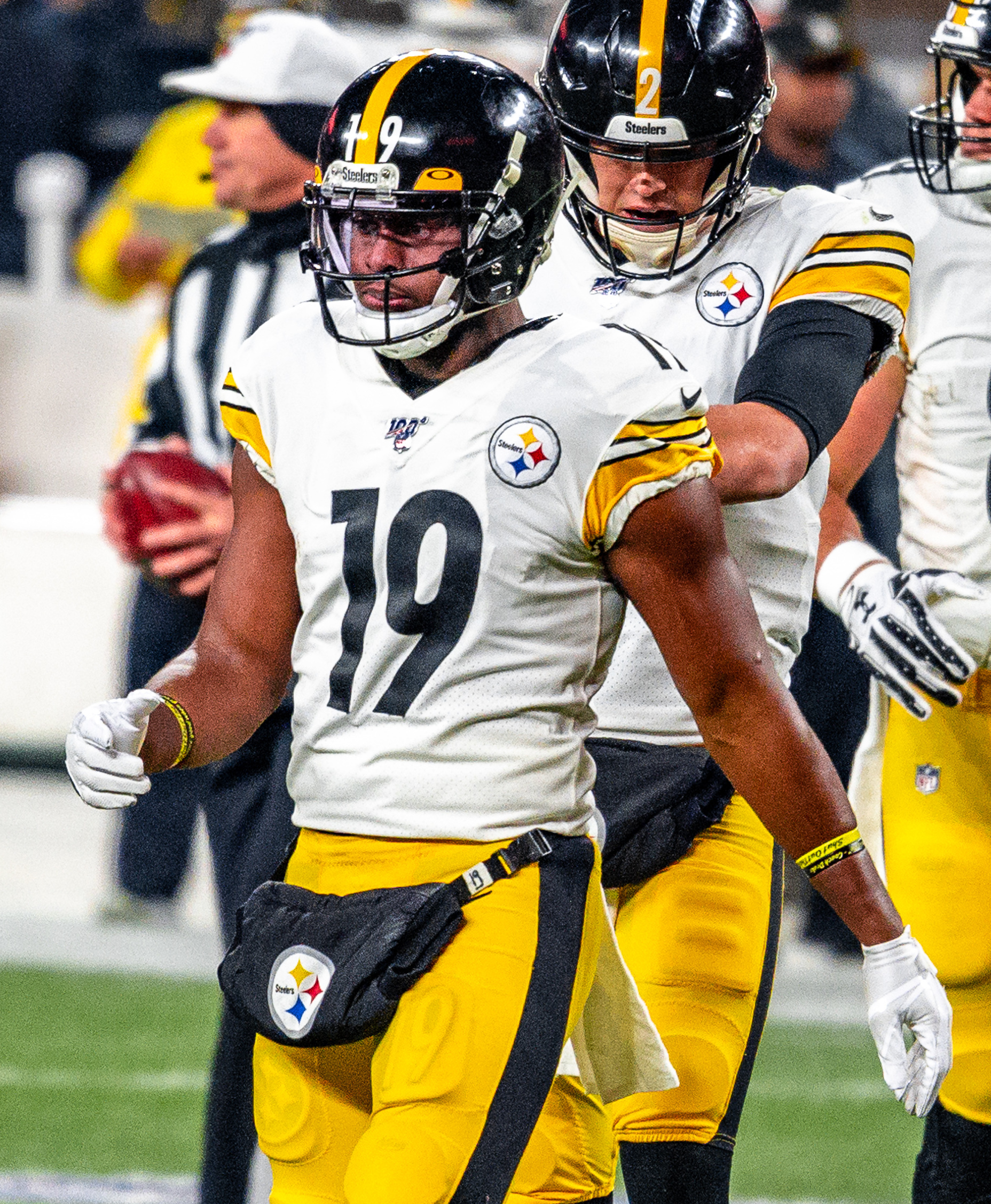 Steelers vs Browns 2019